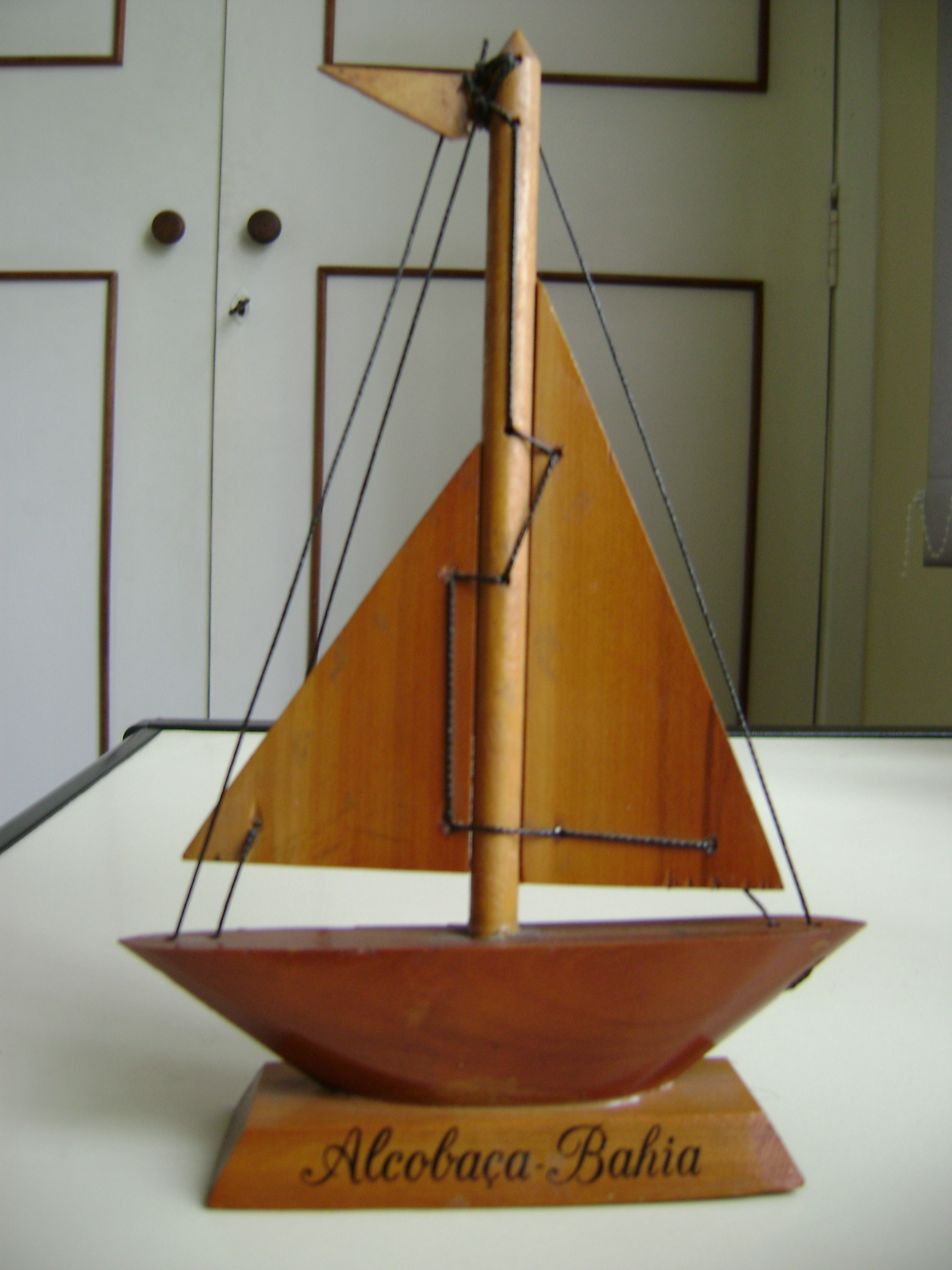 Souvenir boat from Alcobaça, Bahia, Brazil.